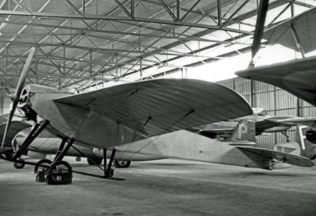 Nieuport IVG preserved at the Flygvapenmuseum at Malmen near Linkoping, Sweden